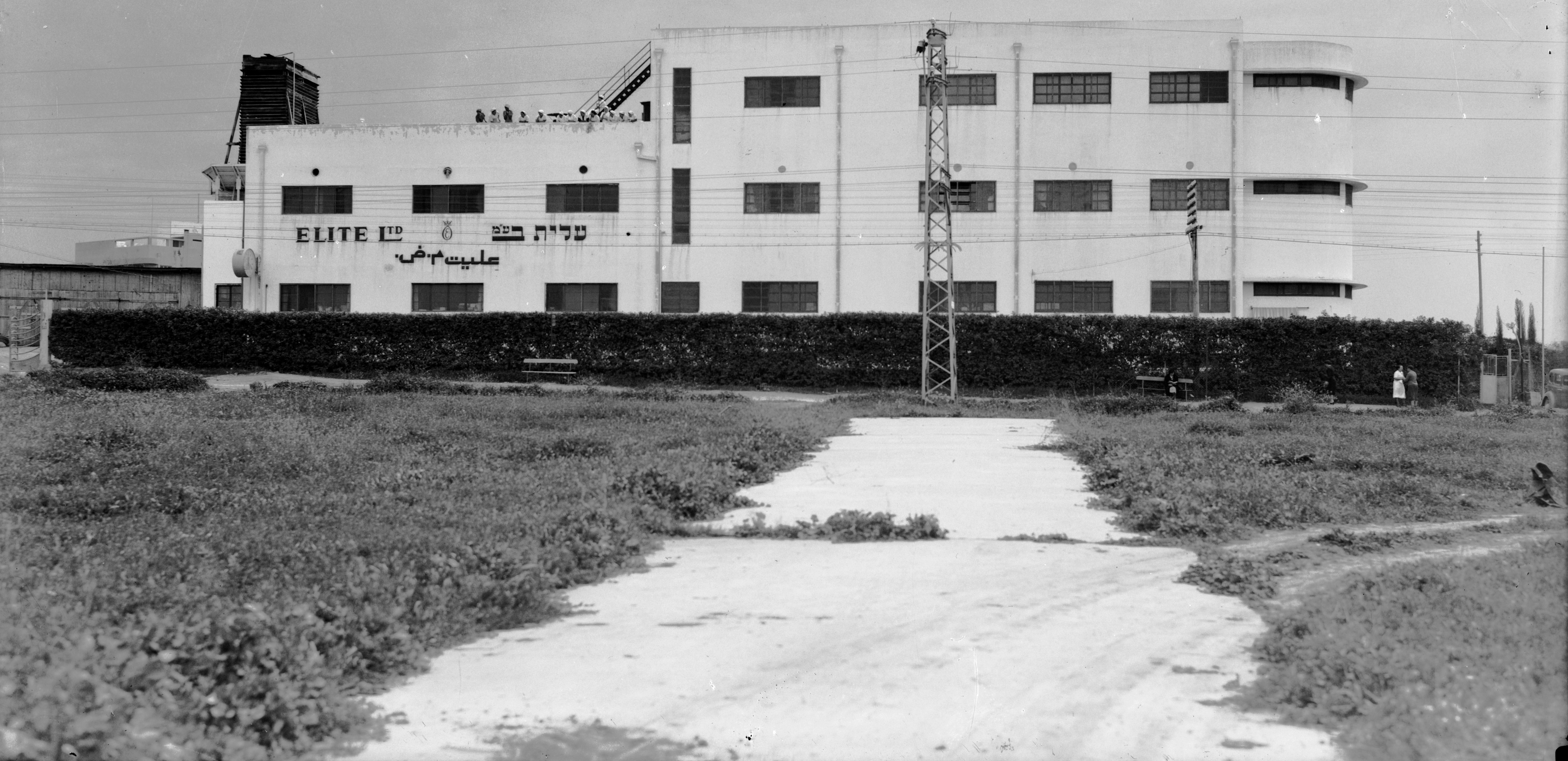 Jewish factories in Palestine on Plain of Sharon & along the coast to Haifa. Ramath Gan. The "Elite" chocolate factory. General view of the premises of "Elite" chocolate factory.